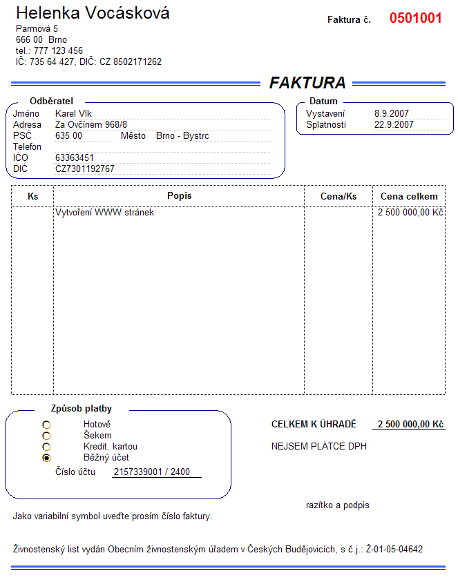 Example of invoice in Czech.